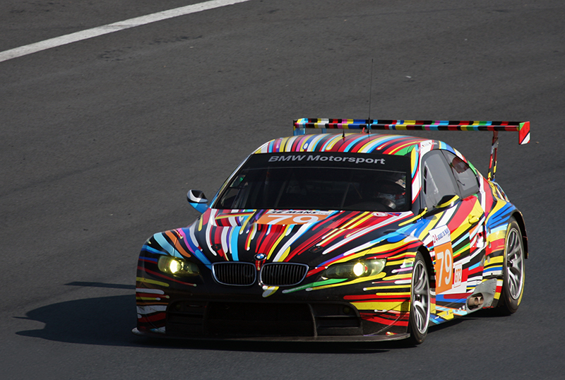 BMW M3 GT2 Le Mans 2010